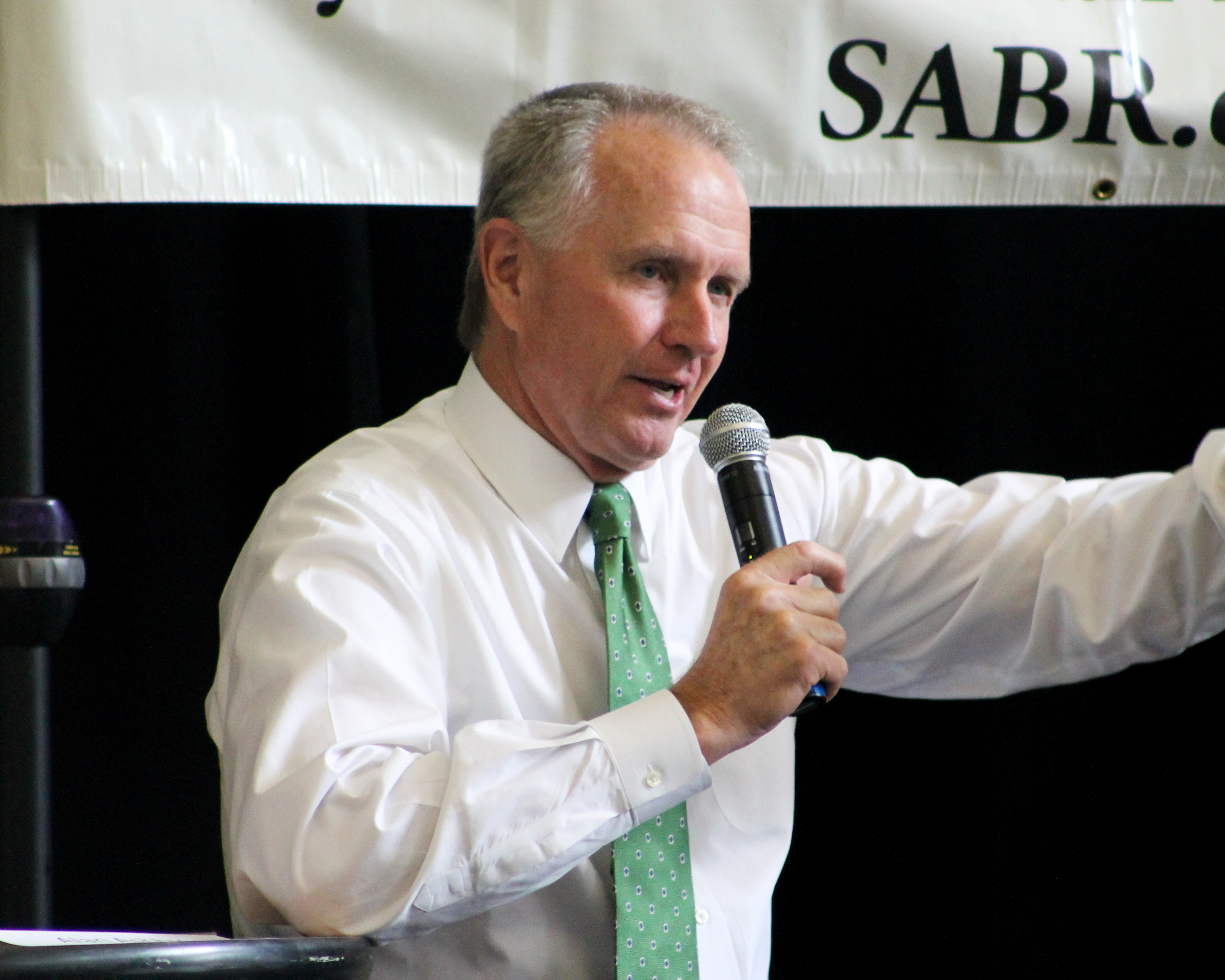 Houston Astros broadcaster Alan Ashby speaks at the annual convention of the Society for American Baseball Research in 2014.